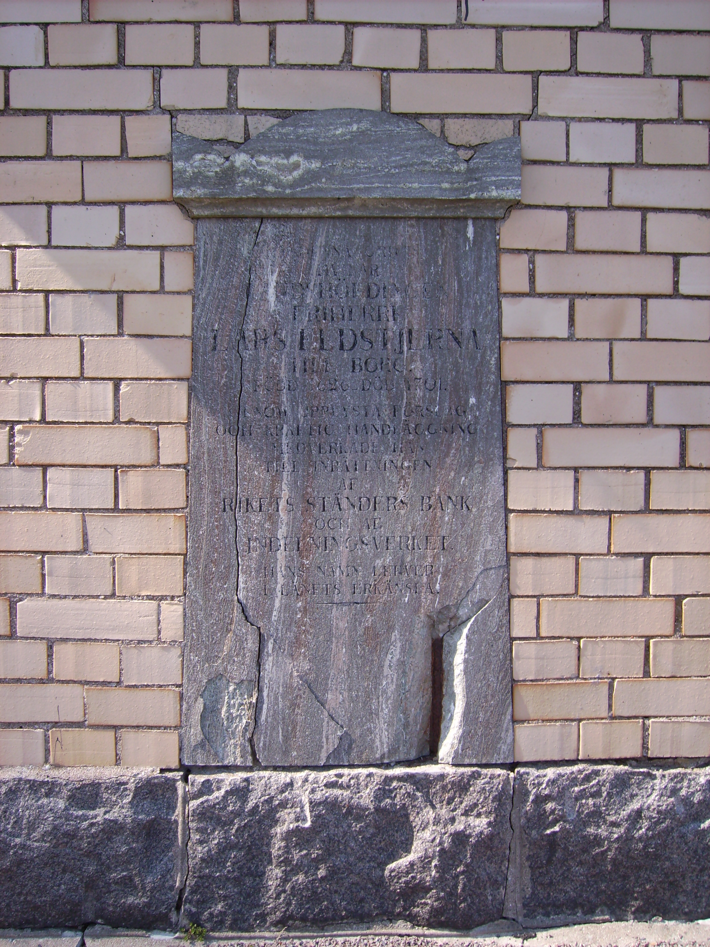 Photo by Harri Blomberg.